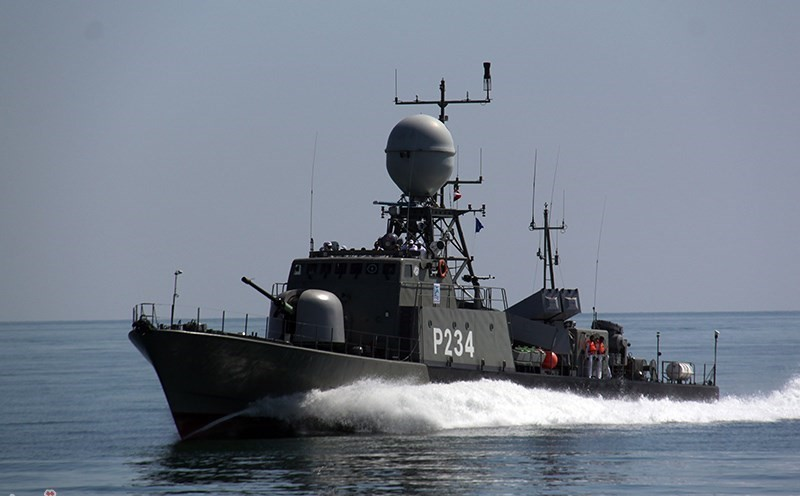 Iranian Separ Cruiser delivered by the Defense Forces to the Iranian Navy